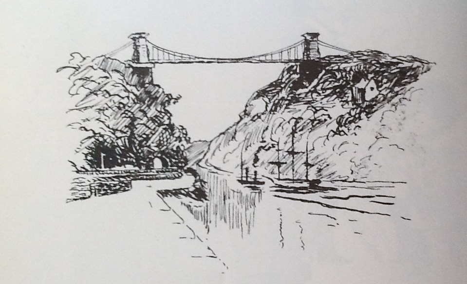 A sketch by Harry Relph (Little Tich), similar to the kind sold in The Blacksmiths Arms when he was a boy.